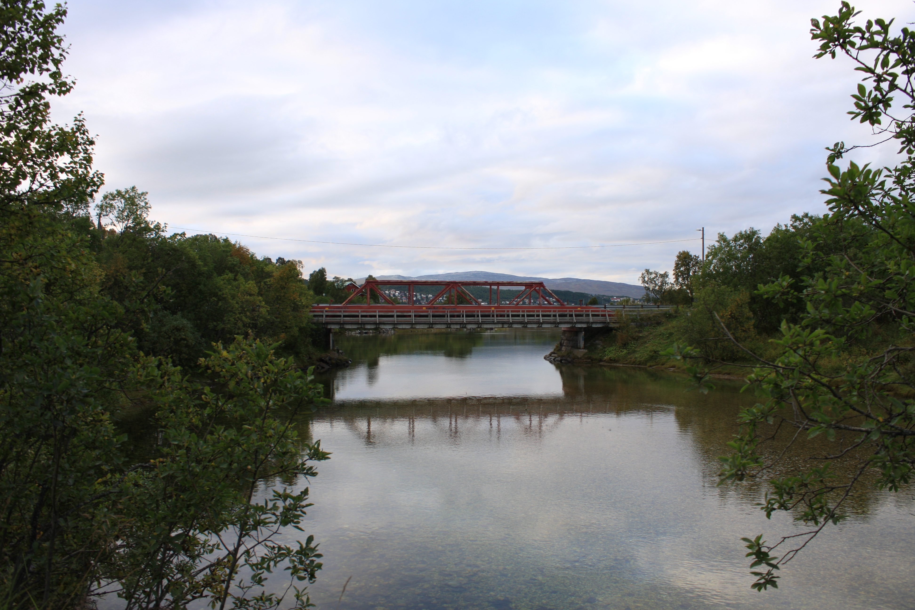 The old bridge over Tromsdalselva between Tromsdalen and Tomasjorda in Tromsø, Norway.